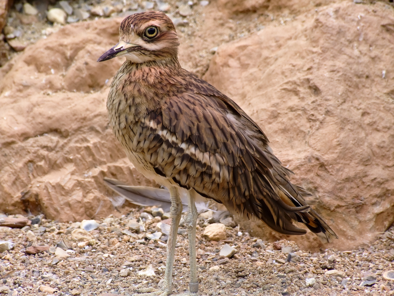 A Eurasian Stone-curlew at Paignton Zoo, Devon, England.